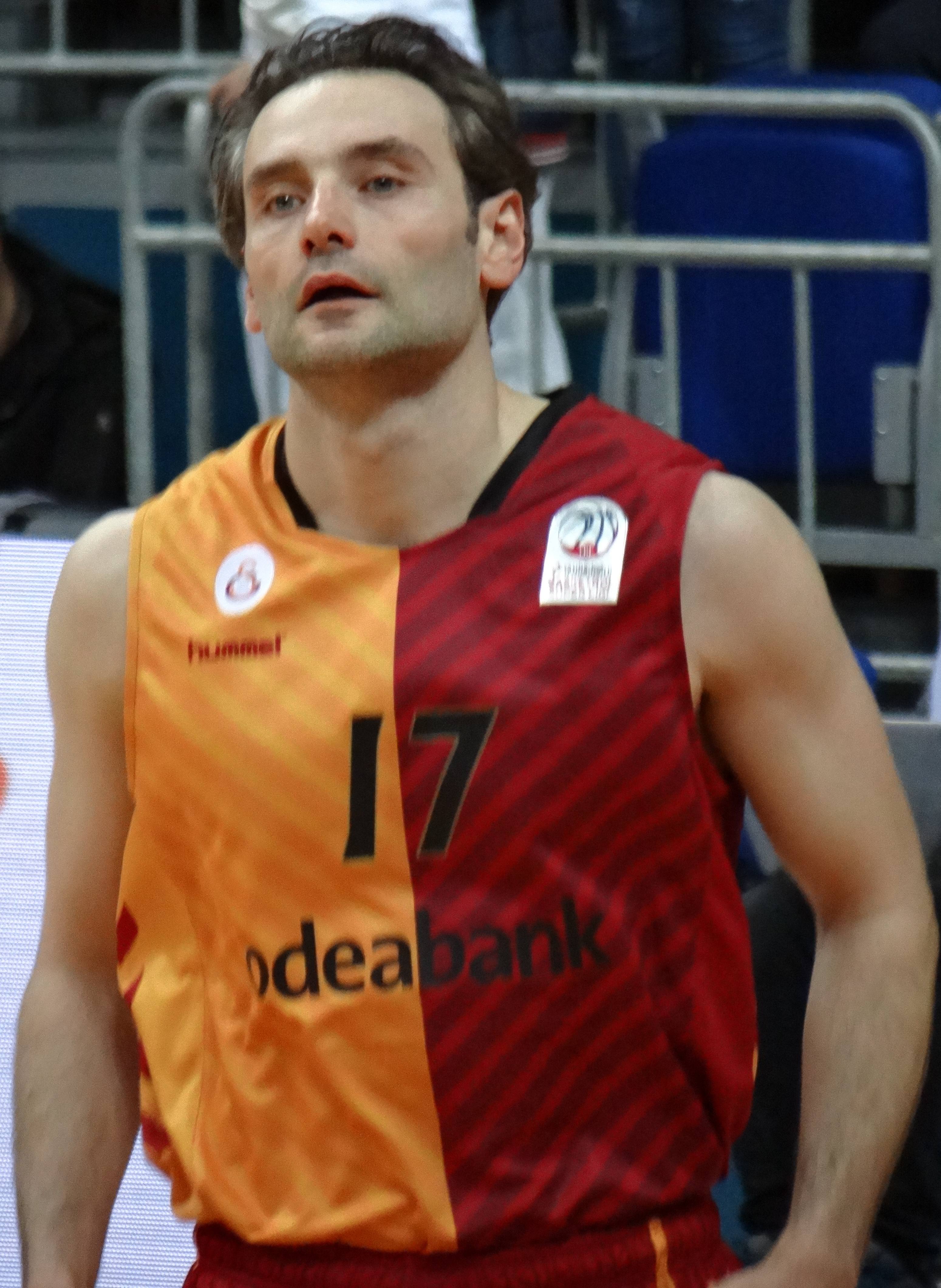 Caner Topaloğlu Fenerbahçe Men's Basketball vs Galatasaray Men's Basketball TSL 20180304